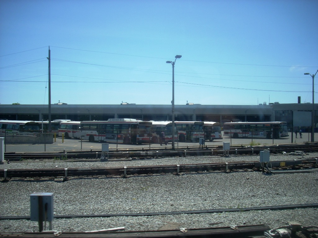 Wilson Bus Yard, Toronto, viewed from a T1 Train.